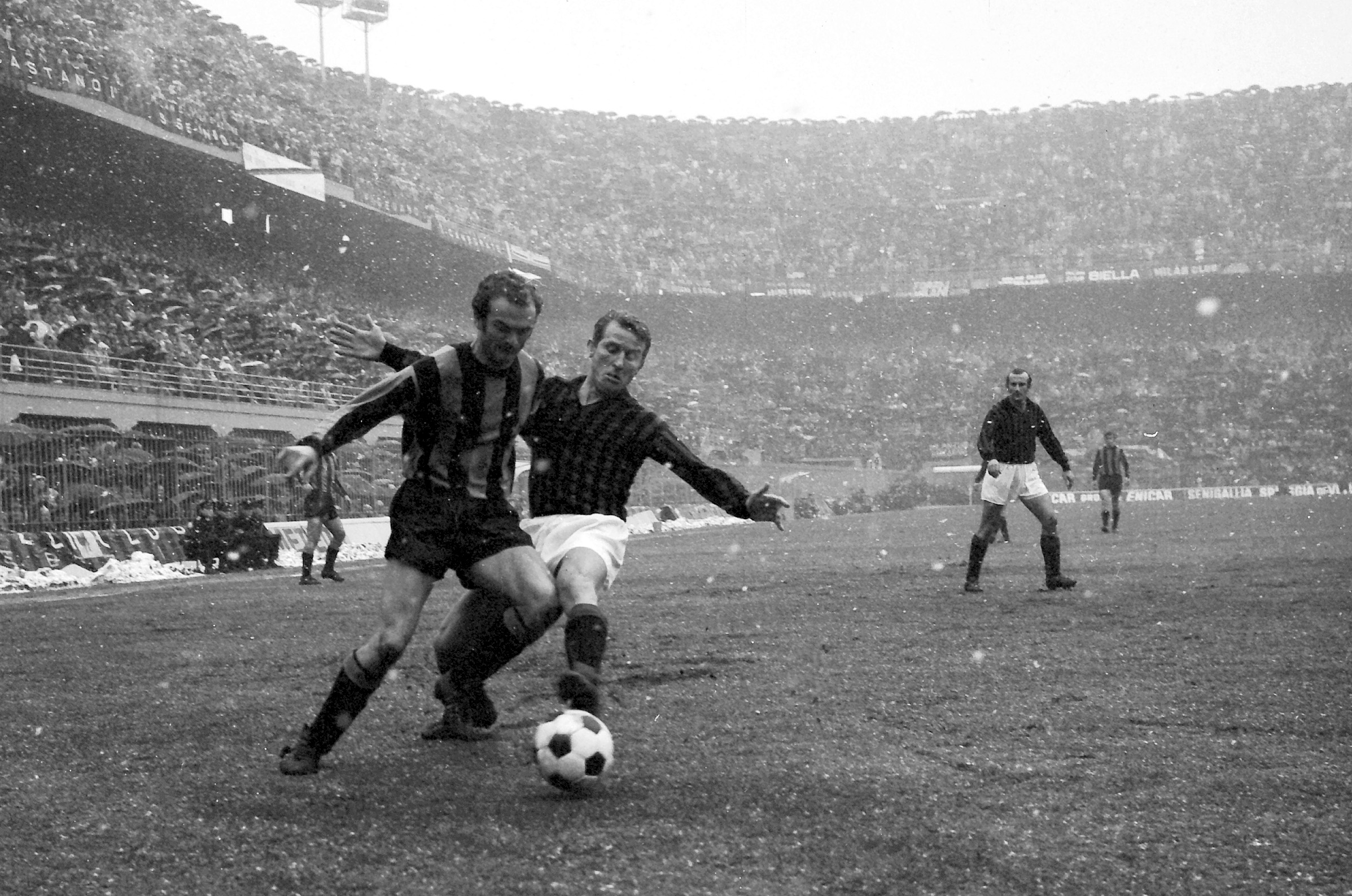 Inter Milan attacker Sandro Mazzola (left) and A.C. Milan defender Giovanni Trapattoni (right) tussle for the ball during A.C. Milan - Inter Milan of Italian League 1969-70 Serie A. In background, Milan's midfielder Giovanni Lodetti is watching the scene; Inter Milan eventually went on winning the game 1-0 with a goal scored by Mario Corso in the 80th minute.